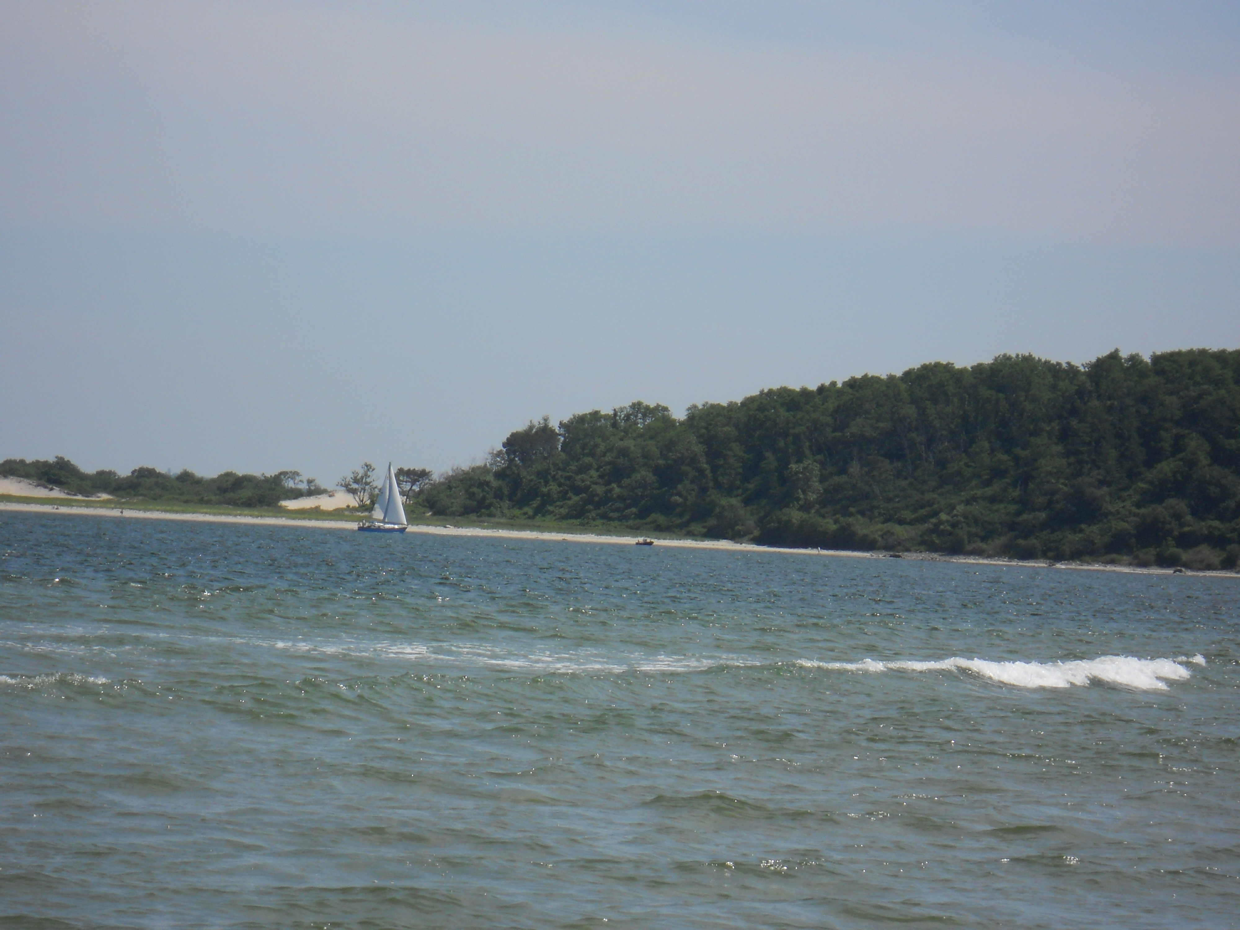 View of the entrance to Ipswich Bay from Sandy Point State Reservation, Ipswich, MA. A sailboat is tacking into the bay through the channel, which runs close to Crane's Beach and Castle Hill, seen in the background.